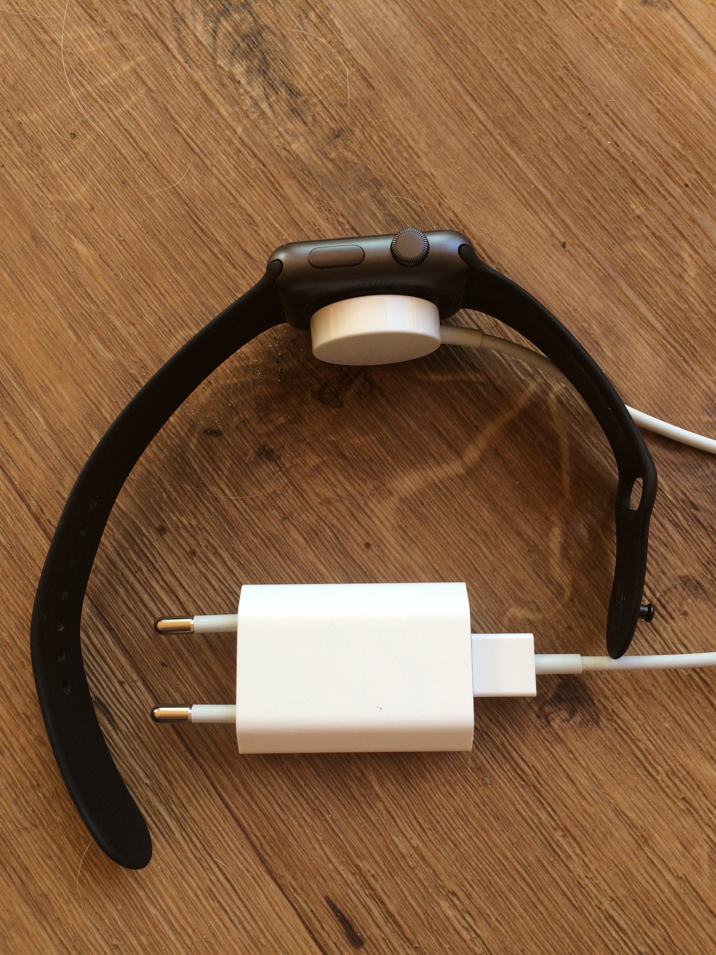 Ladekabel an Apple Watch